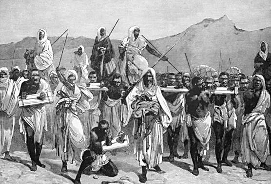 Public domain image more than 100 years since creation, therefore further sourcing not required. Arab Slave Traders. A 19th-century engraving depicting an Arab slave-trading caravan transporting black African slaves across the Sahara. The trans-Saharan slave trade developed in the 7th and 8th centuries as Muslim Arabs conquered most of North Africa. The trade grew significantly from the 10th to the 15th century and peaked in the mid-19th century